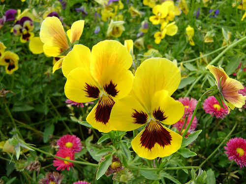 Yellow Pansy shot at Srinagar, India.